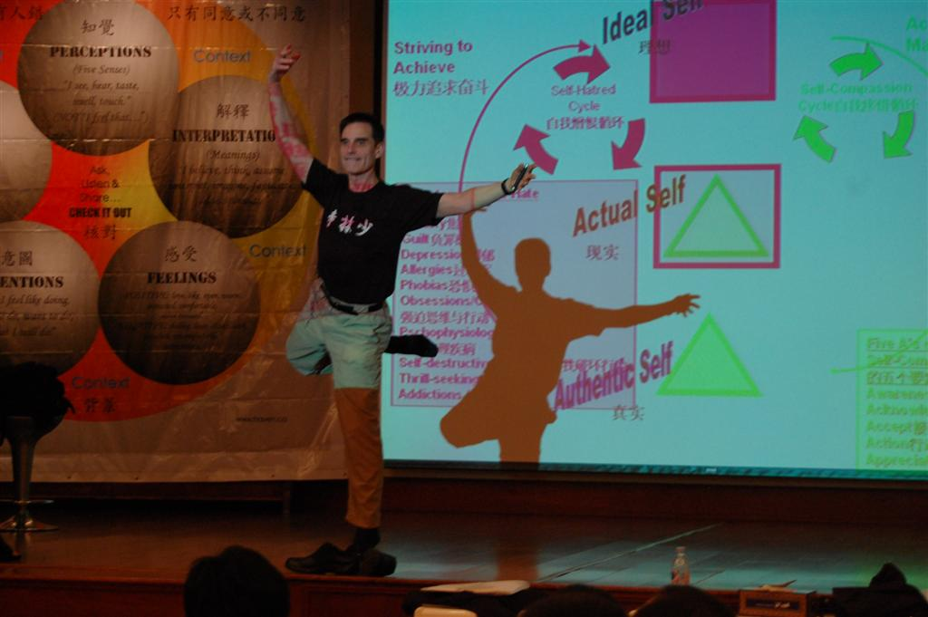 Jock McKeen lecturing in Dubai, illustrating balletic form